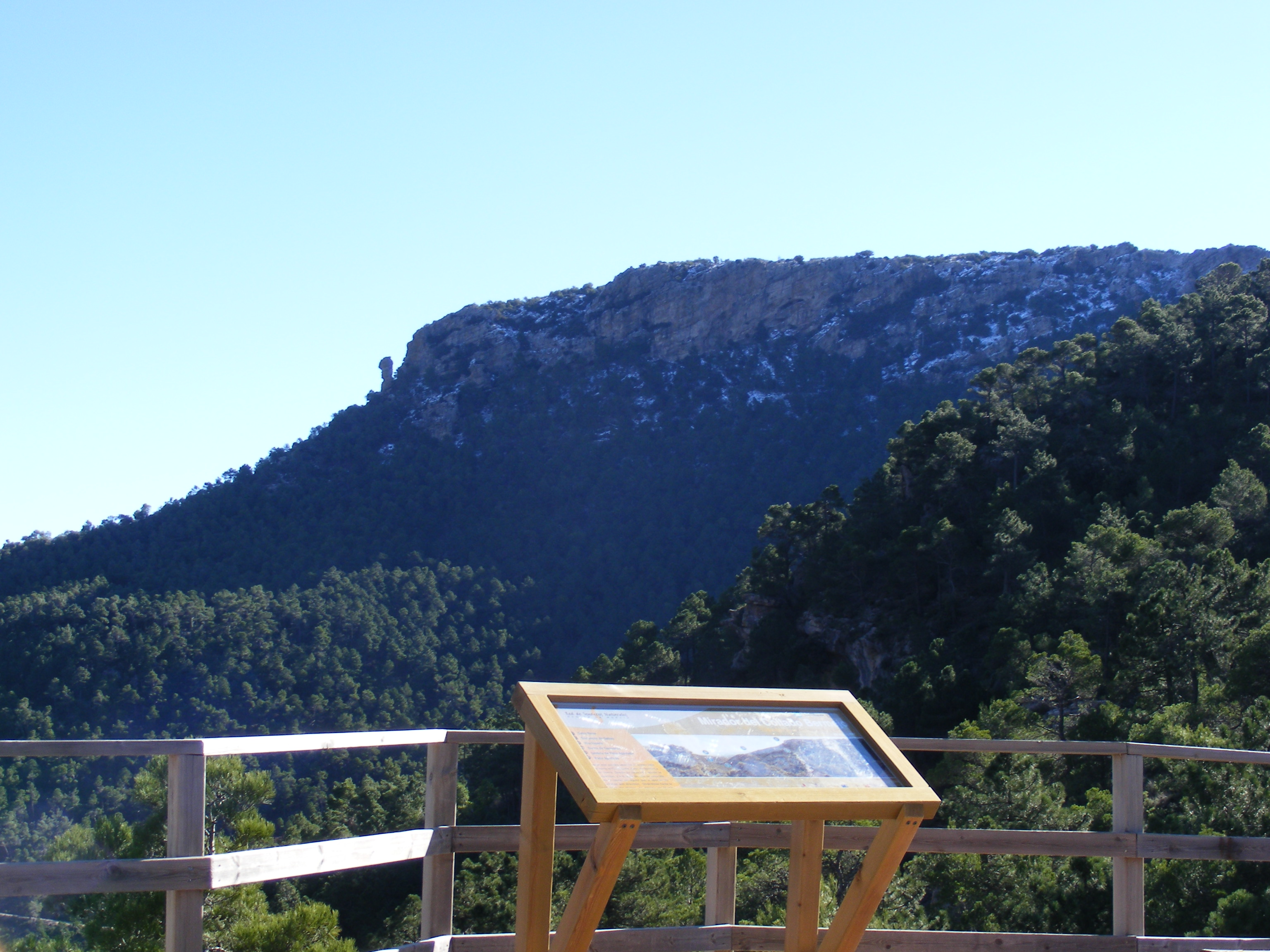 Collado Bermejo viewpoint.